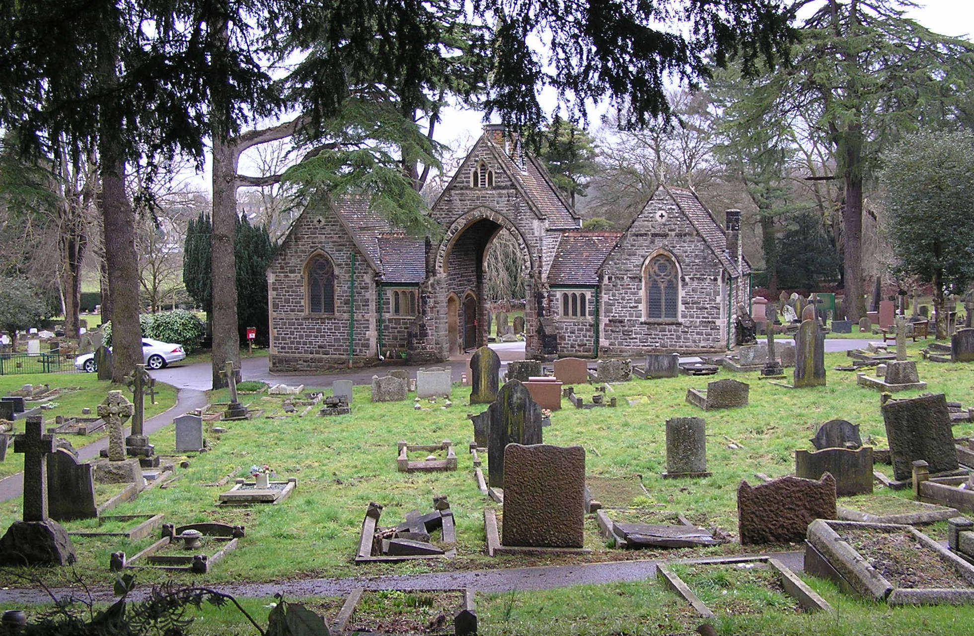 Keynsham Cemetery The land for this was purchased in 1877. When digging graves it was discovered that underneath was one of the largest and elaborate Romano-British villas in England. It has been described as a minor palace.